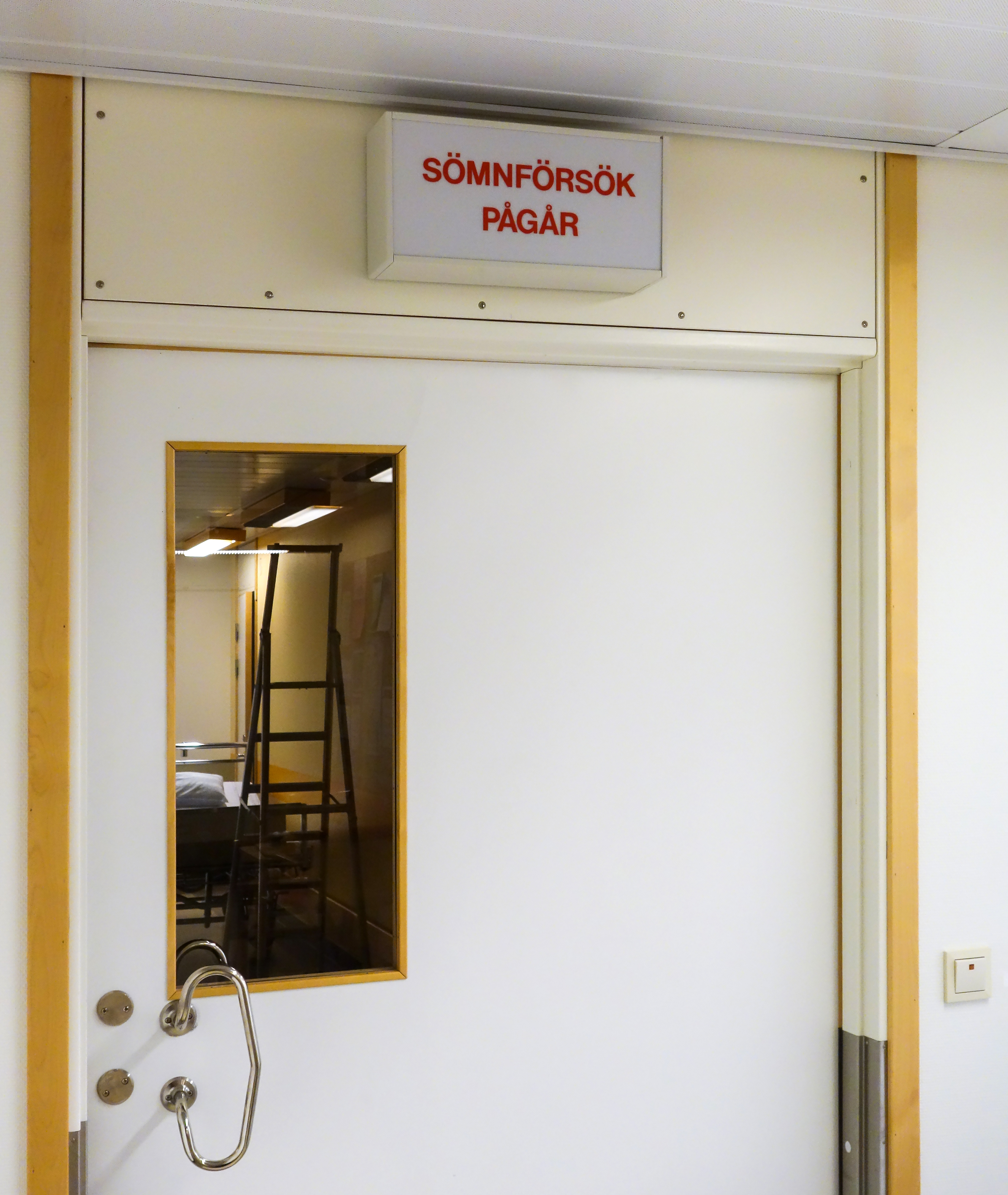 "Sömnförsök pågår" (Sleep study in progress). Room for sleep studies in Norra Älvsborgs Länssjukhus (Northern Älvsborg county hospital) - NÄL, Trollhättan, Sweden.